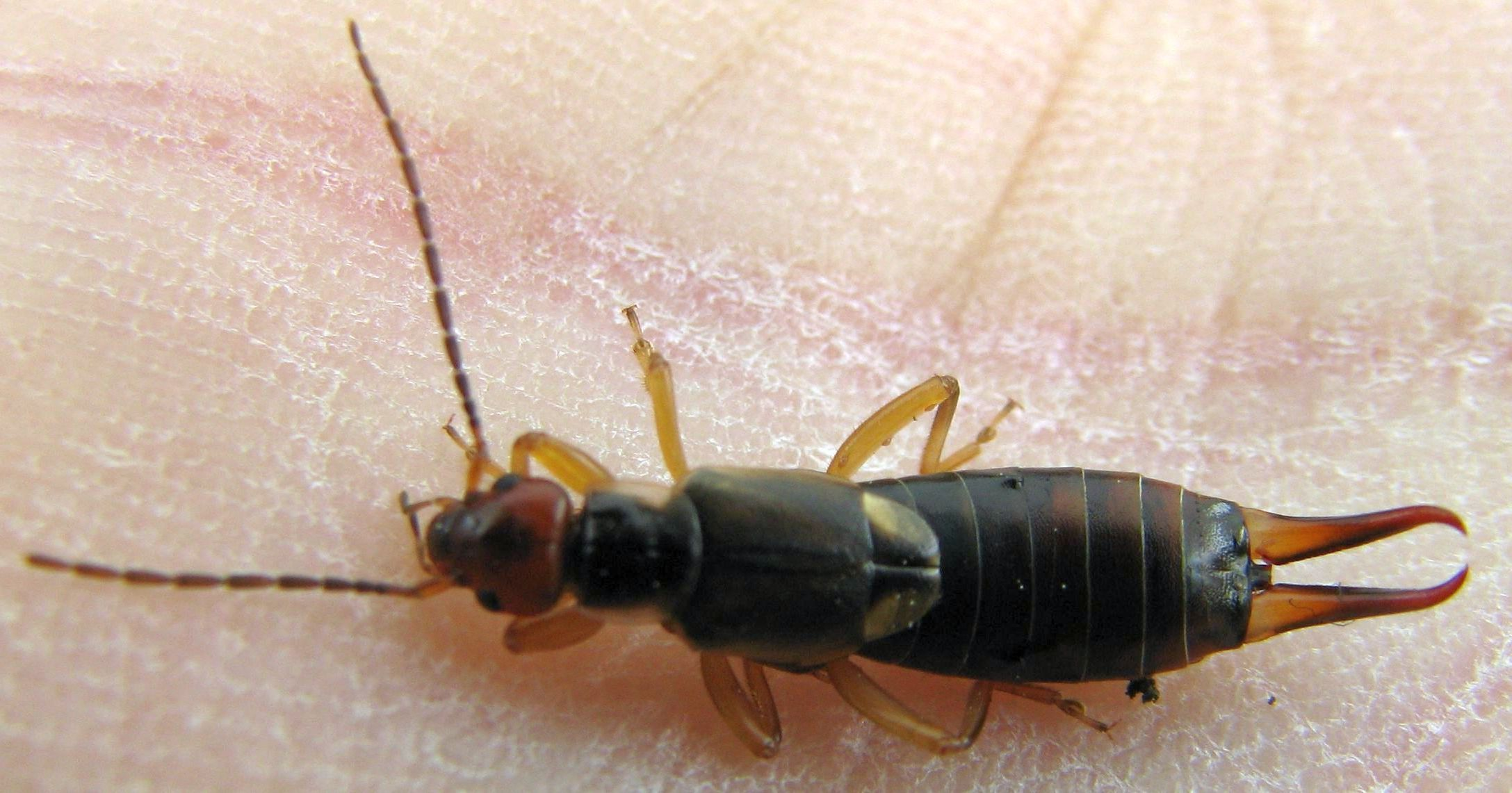 Female common earwig Forficula auricularia